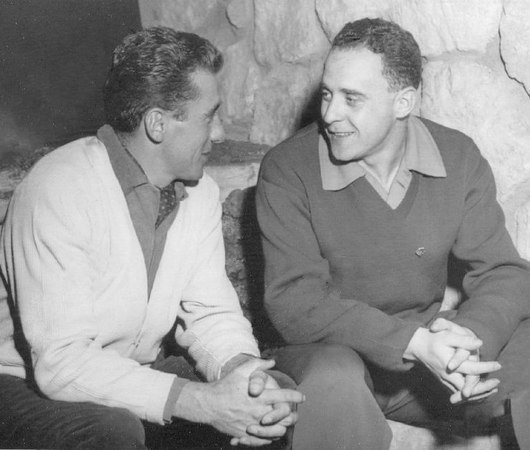 1960 Winter Olympic Ice Hockey Brothers Zdenek (left) and Frantisek (right) Tisal Press Photo